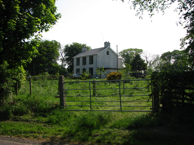 Church manse Another view of the former manse of Moss-side Presbyterian Church.